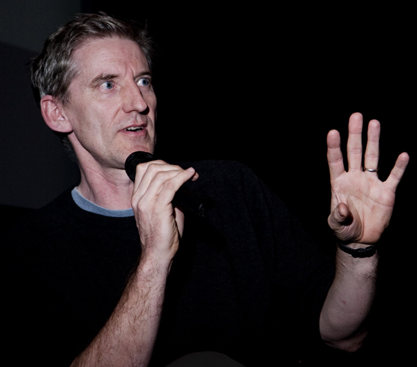 Clive Stafford Smith